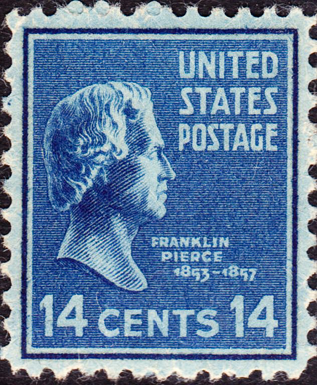 US Postage stamp: Franklin Pierce, Issue of 1938, 14c